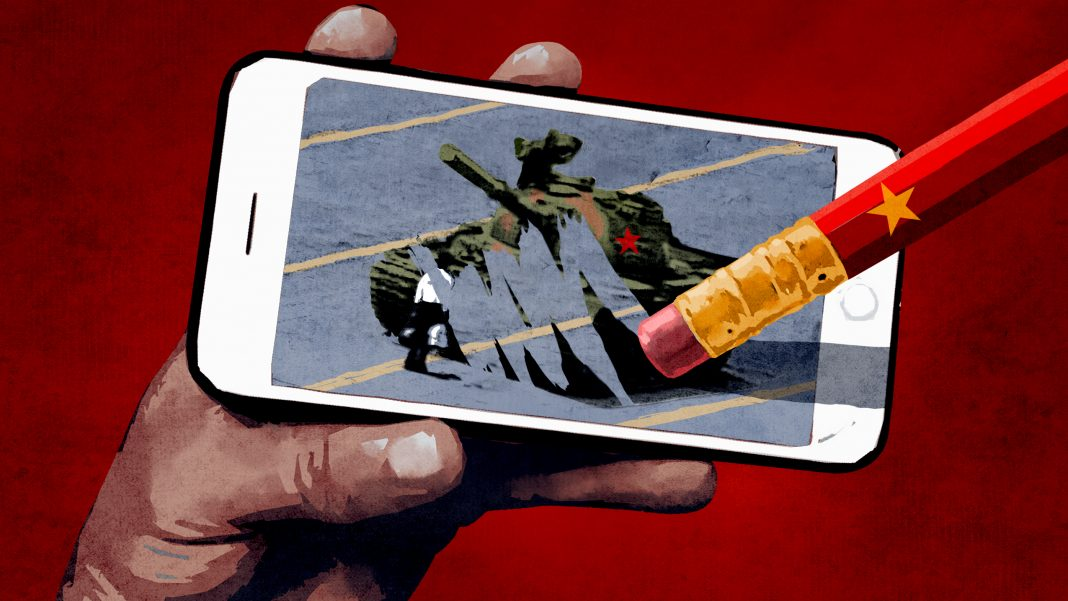 Illustration of pencil erasing image on cellphone of tank with lone man standing in front of it.